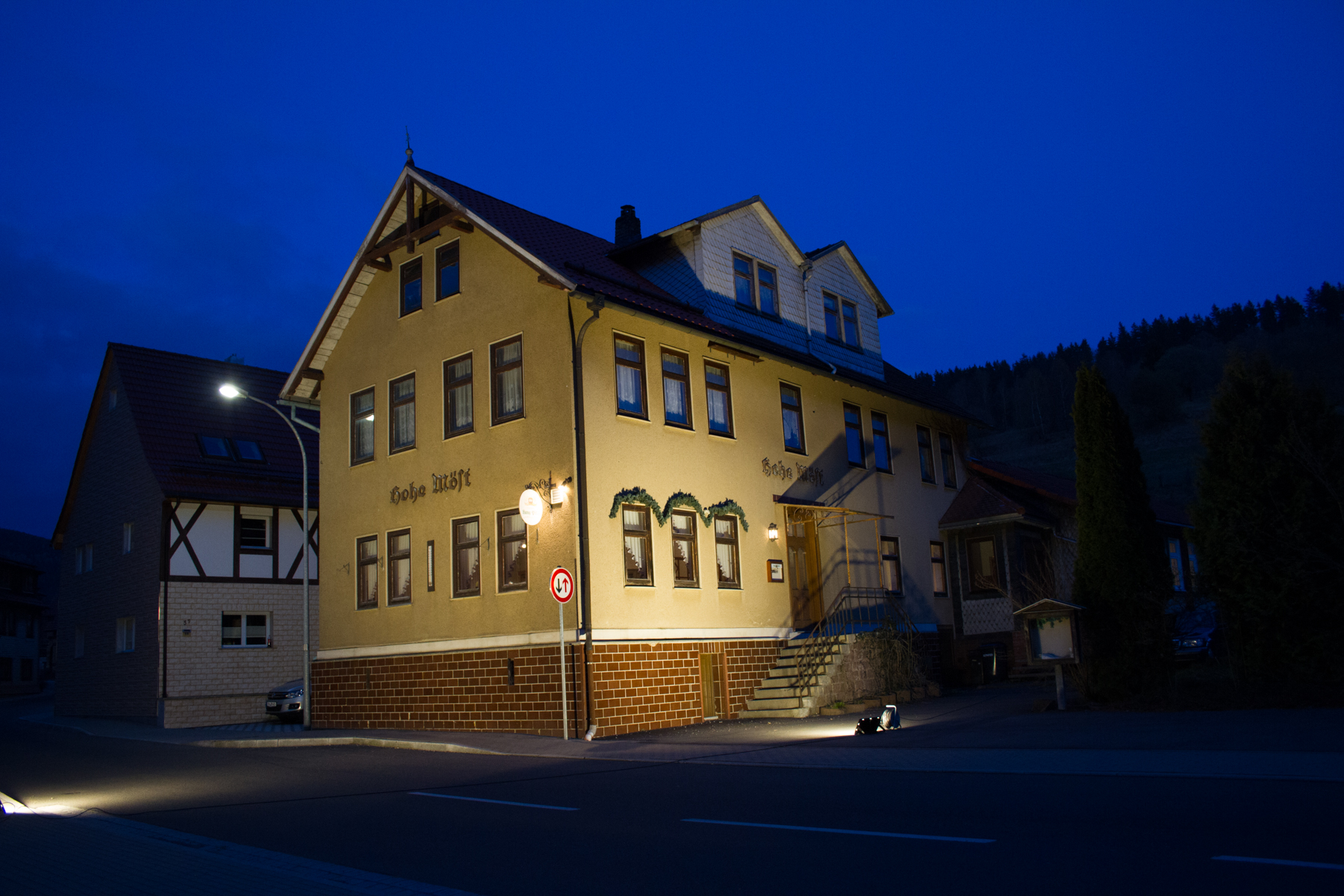 Restaurant of traditionally, Hohe Möst